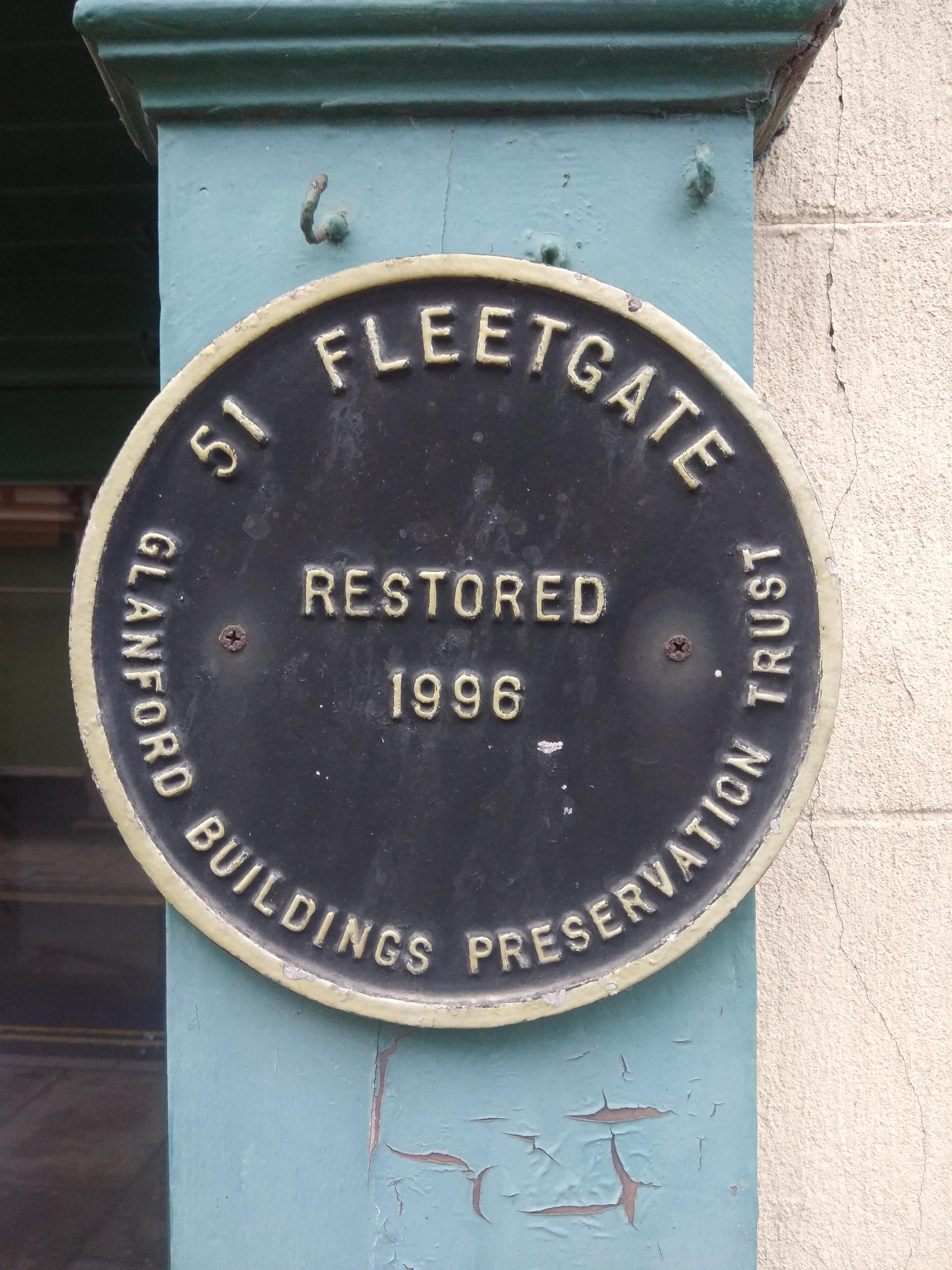 Plaque on 51 Fleetgate, Barton-upon-Humber